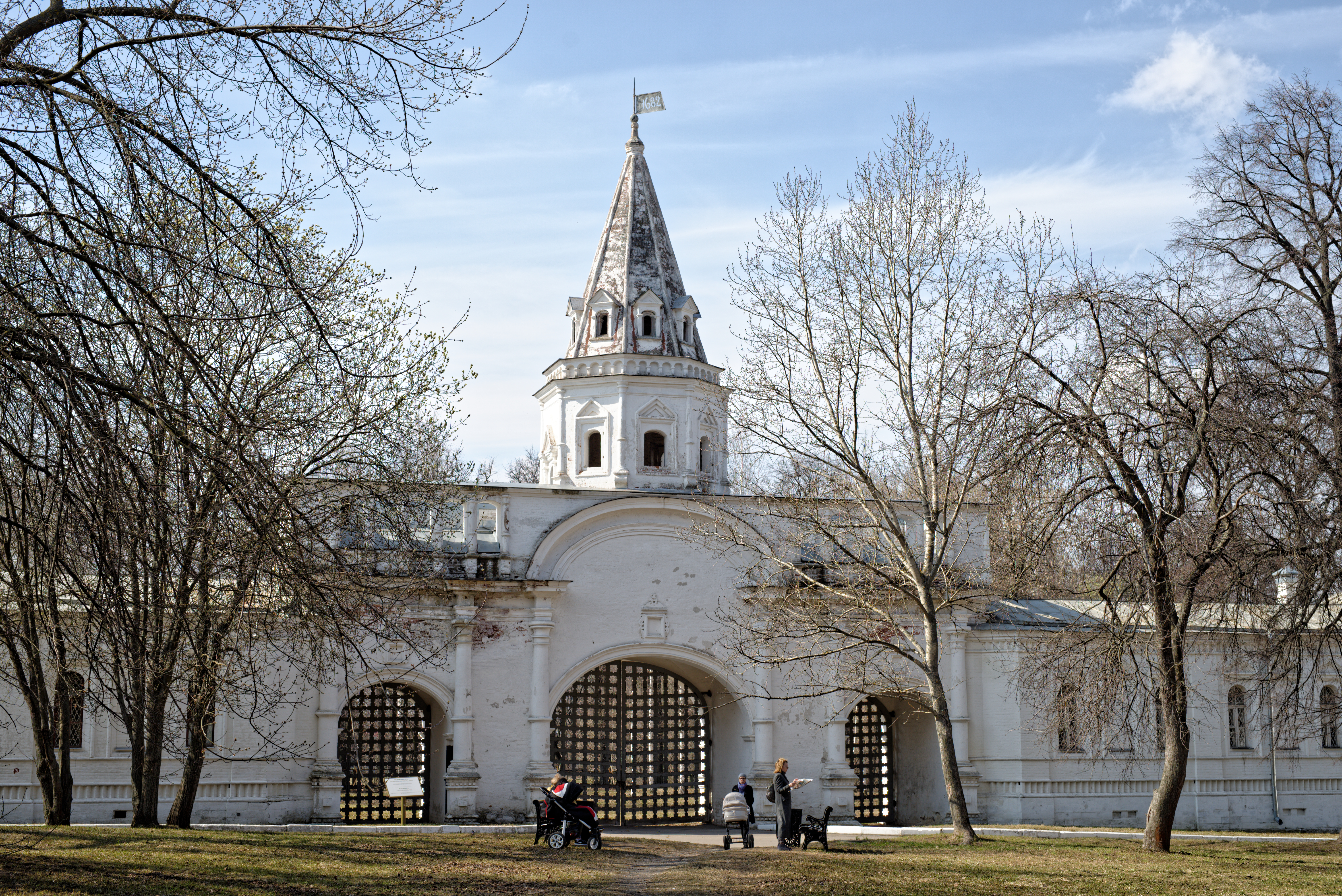 Rear gate in the Manor Izmailovo 17th century